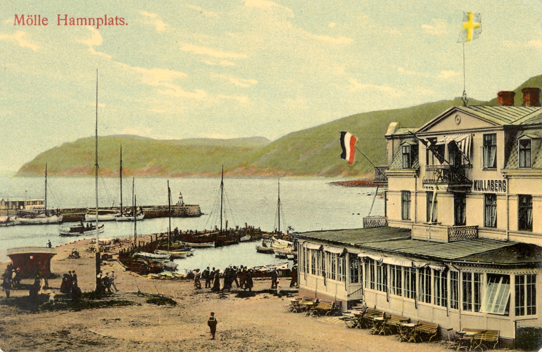 Hotel Kullaberg, Mölle, Sweden ca 1910